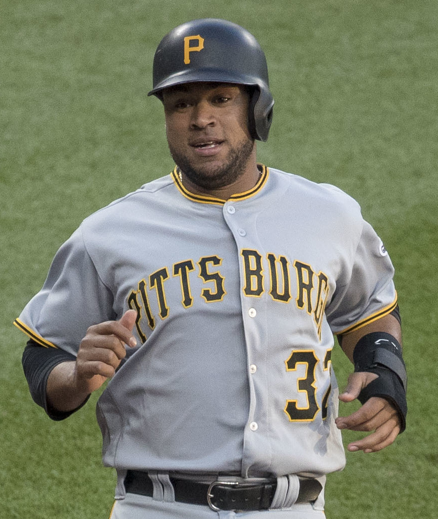 Elias Diaz of the Pittsburgh Pirates scores against the Baltimore Orioles in a game at Oriole Park at Camden Yards on June 7, 2017 in Baltimore, Maryland.